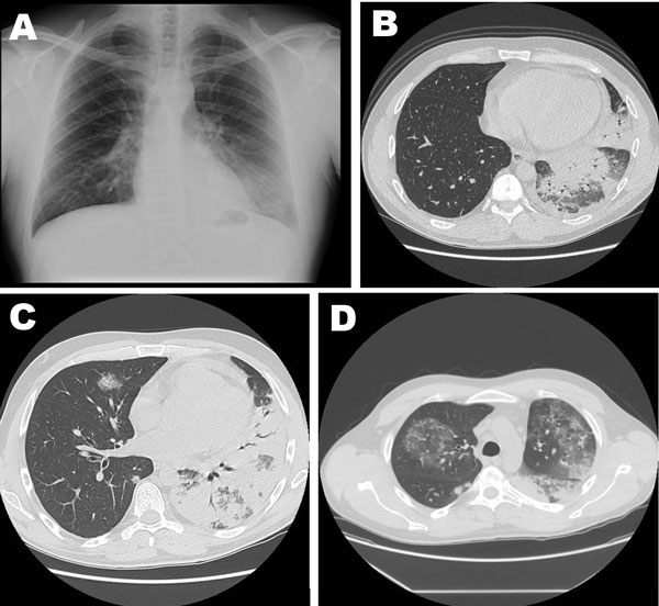 Figure. . . Imaging studies of 42-year-old man with severe pneumonia caused by Legionella pneumophila serogroup 11, showing lobar consolidation of the left lower lung lobe, with an air-bronchogram within the homogeneous airspace consolidation. Consensual mild pleural effusion was documented by a chest radiograph (A) and high-resolution computed tomography (B). A week after hospital admission, repeat high-resolution computerized tomography of the chest showed extensive and homogeneous consolidation of left upper and lower lobes, accompanied by bilateral ground-glass opacities (C and D).